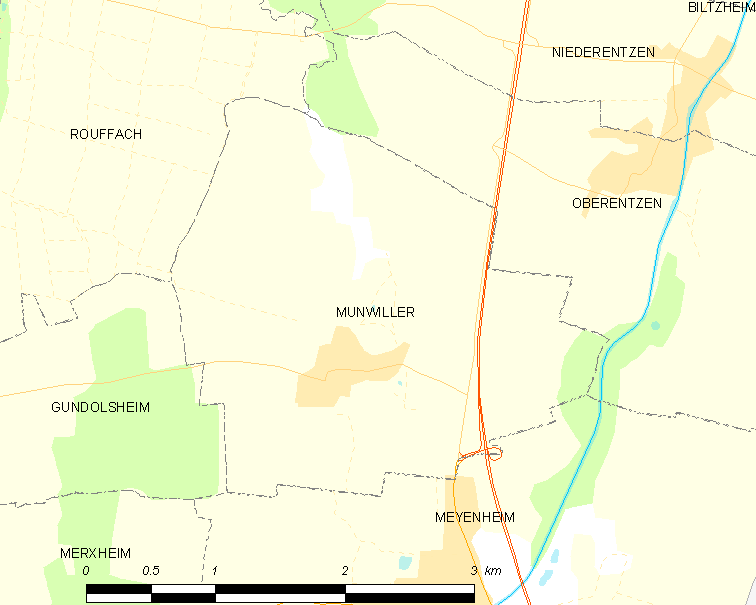 Map of French municipality